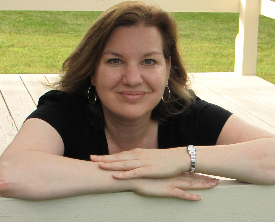 Author Karen McQuestion (photo by Greg McQuestion)